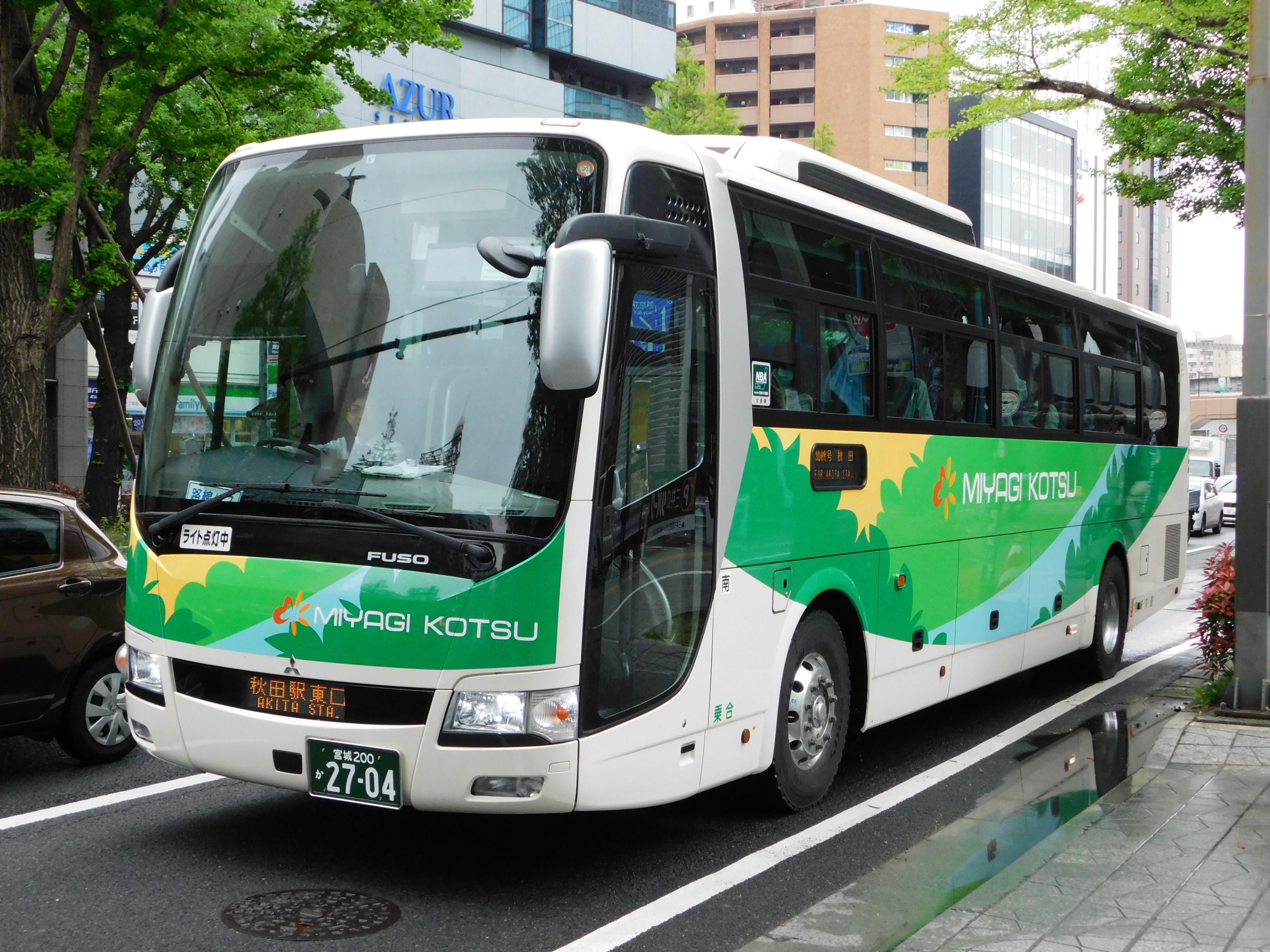 Miyagi Kotsu Highwaybus "Senshu-go" (Sendai-Akita)